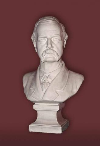 Plaster bust of Tuke wearing contemporary dress, sculpted by John Hutchison. The sitter, Tuke, died in 1913, but the sculptor John Hutchison died in 1910, so it was sculpted before 1910.